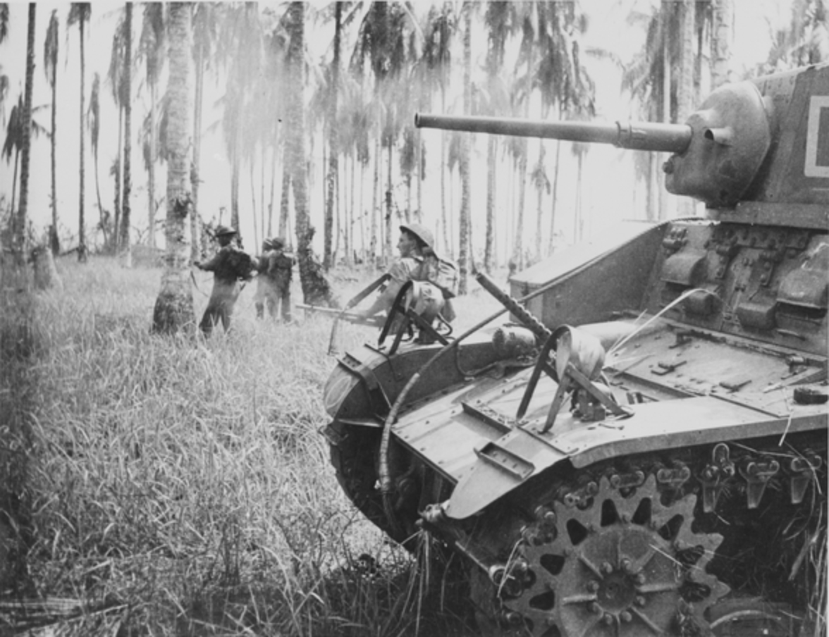 1943-01-07. PAPUA, GIROPA POINT. MEMBERS OF 2/12TH INFANTRY BATTALION ADVANCE AS GENERAL STUART M3 LIGHT TANKS MANNED BY B SQUADRON, 2/6TH ARMOURED REGIMENT, BLAST JAPANESE PILLBOXES IN THE FINAL ASSAULT ON BUNA. NOTE MACHINE GUN ON TANK CLEARING TREETOPS OF SNIPERS BY SYSTEMATIC SPRAYING OF TREES AS THE INFANTRY MOVES FORWARD. THIS TANK, IN ONE MORNING'S FIGHTING, FIRED 10,000 ROUNDS OF MACHINE GUN AMMUNITION. THE PHOTOGRAPH WAS TAKEN DURING ACTUAL FIGHTING. NEAREST THE TANK IS CORPORAL G. G. FLETCHER, AND NEXT TO THE TREE (CENTRE) CORPORAL M. D. CROKER. (NEGATIVE BY GEORGE SILK).